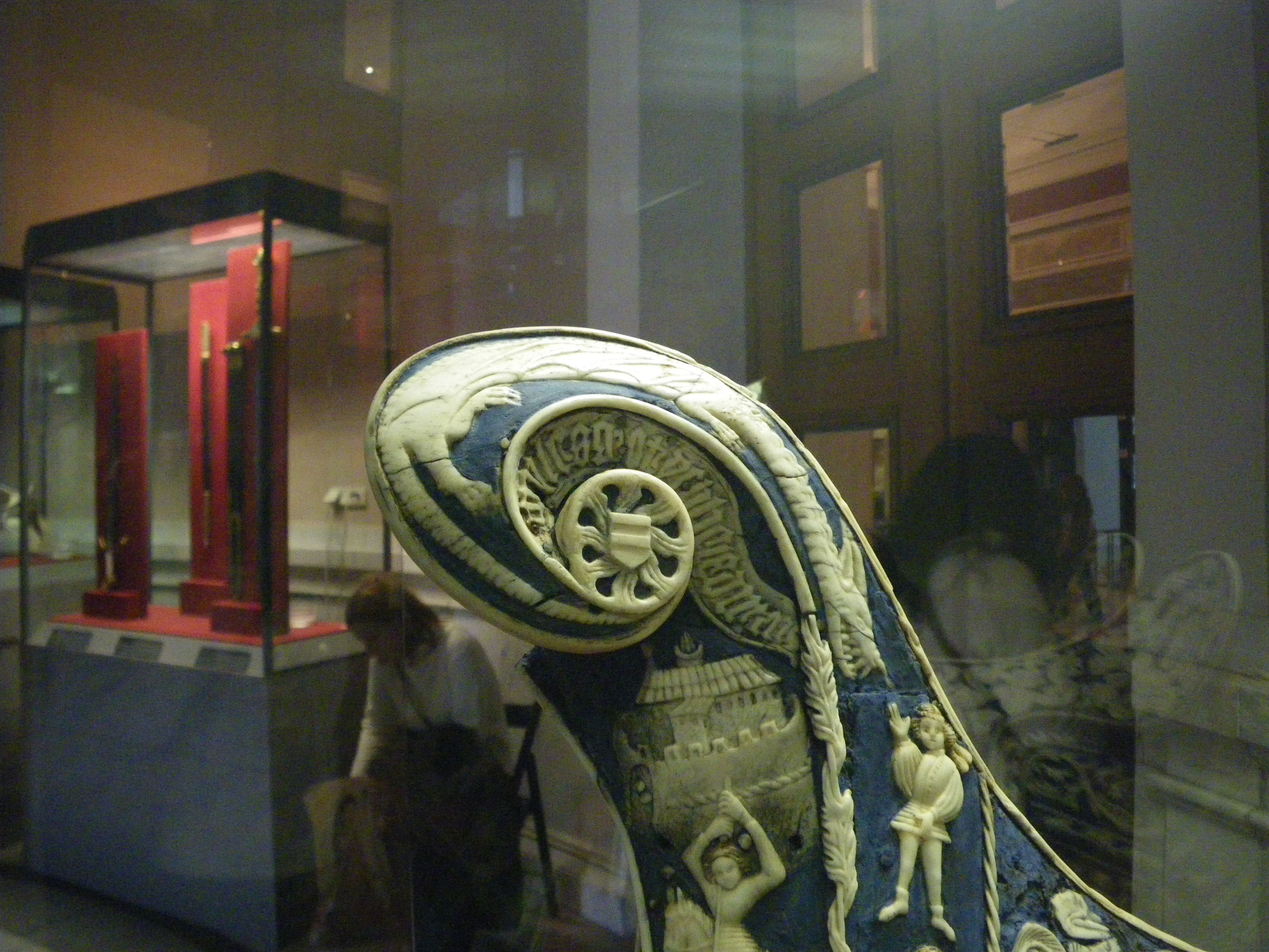 Order of the dragon Symbol on a saddle